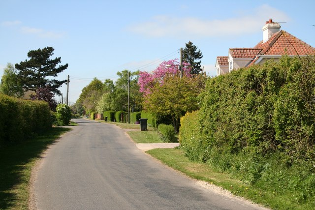 Barlings Lane Looking north near Manor Farm